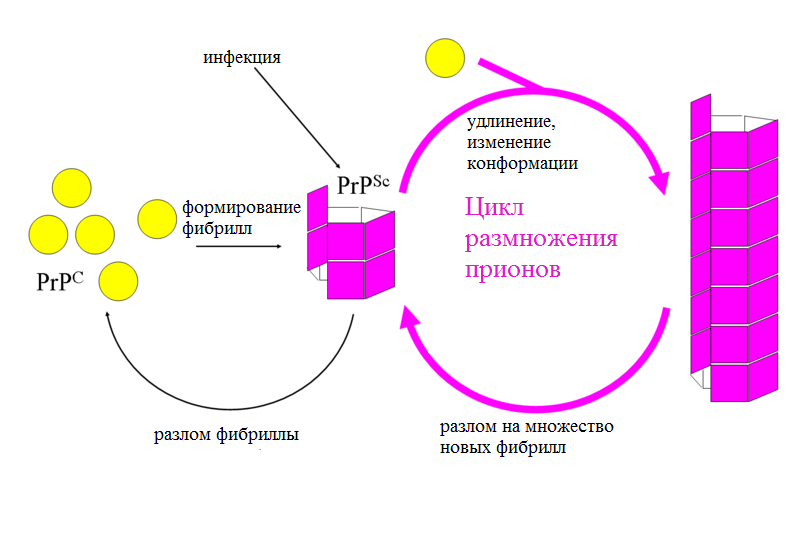 Fibril model of prion propagation